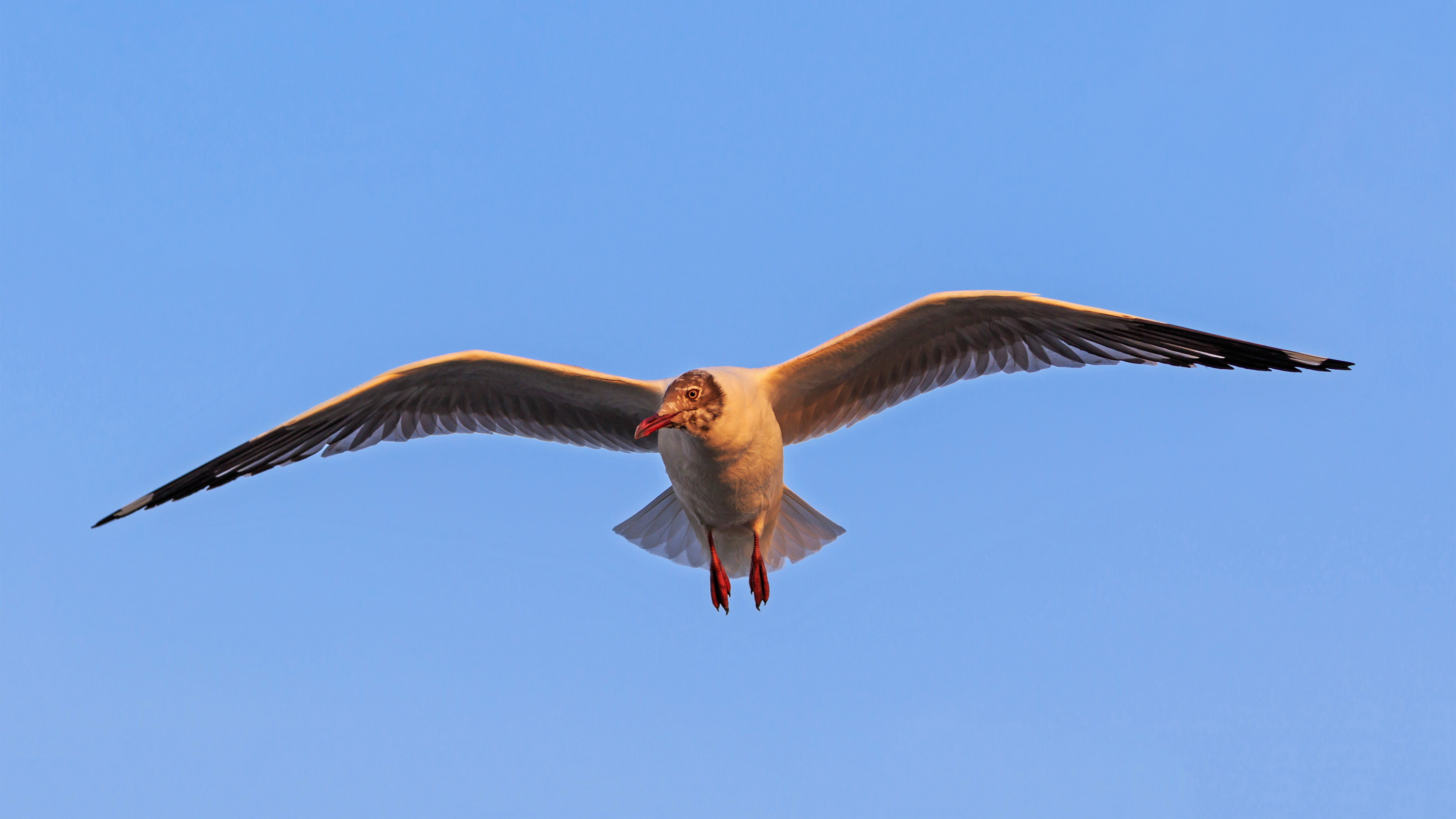 Brown-headed gull. Taken from Elephanta-Mumbai ferry. Maharashtra, India.